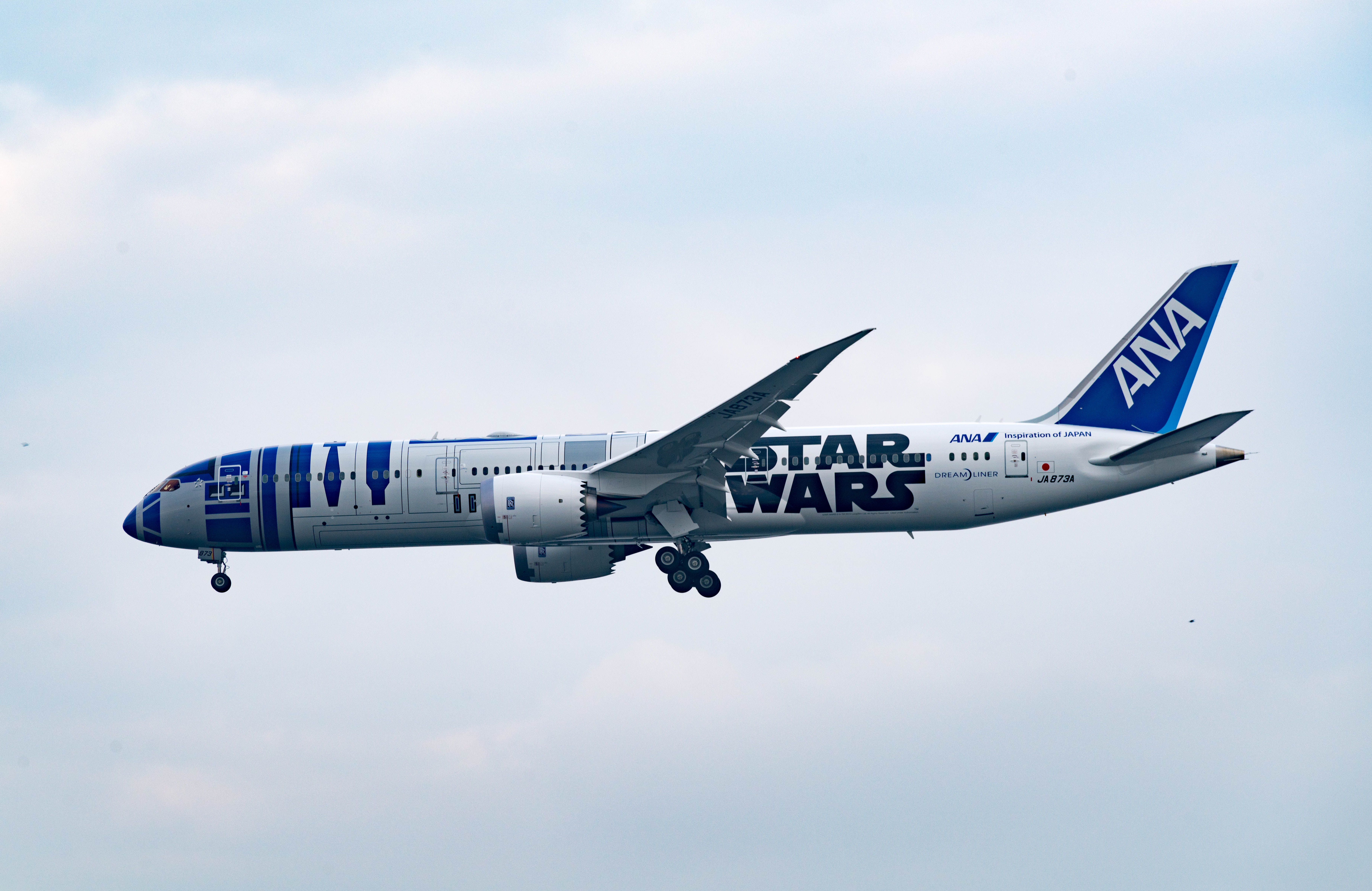 All Nippon Airways Boeing 787-9 Dreamliner